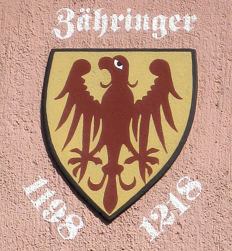 Zähringen's coat of arms at the Breisach town hall